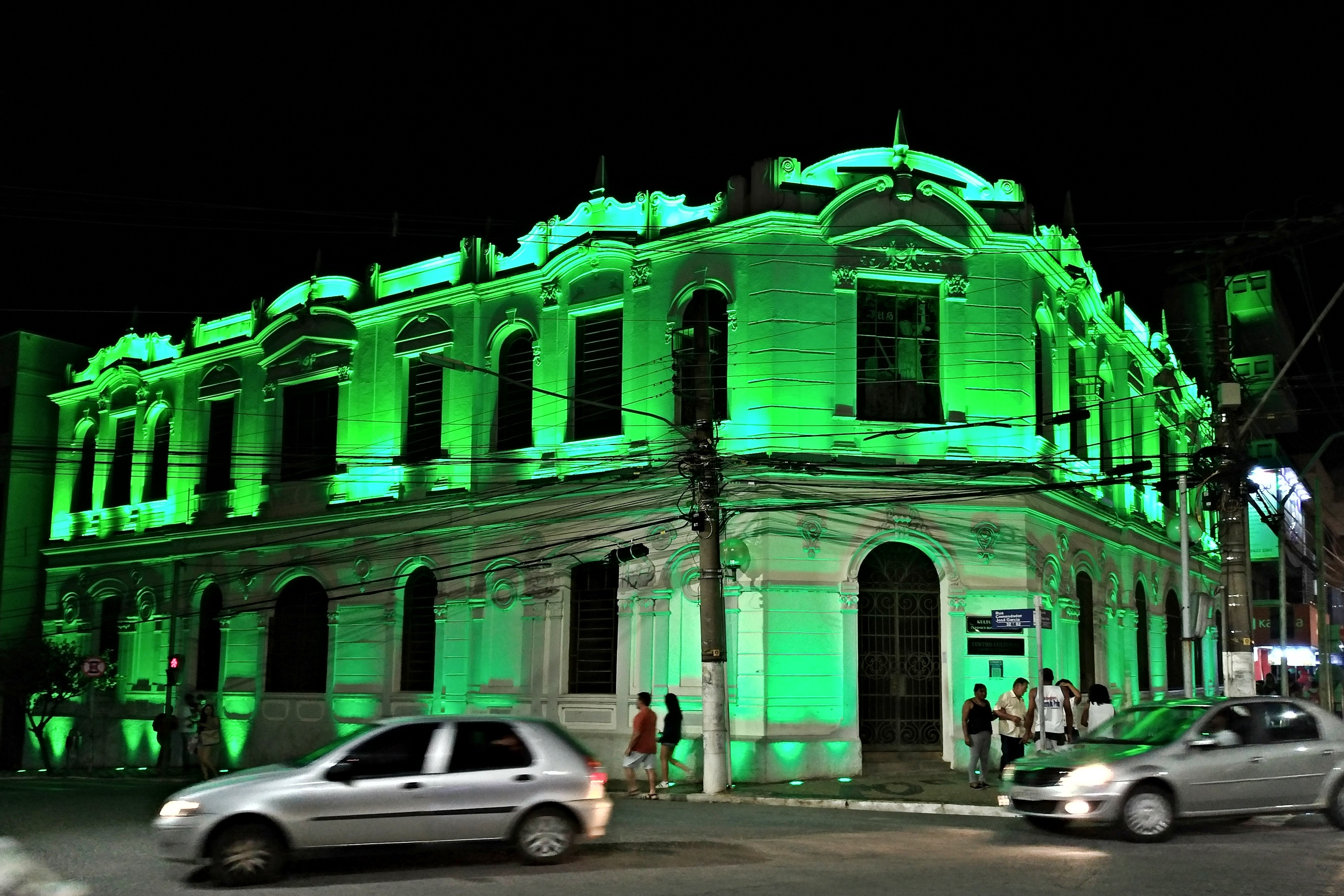 Nocturn view of the facade of the Centro Cultural Cleonice Bonillo Fernandes (Cleonice Bonillo Fernandes cultural center), in Pouso Alegre, Minas Gerais, Brazil.